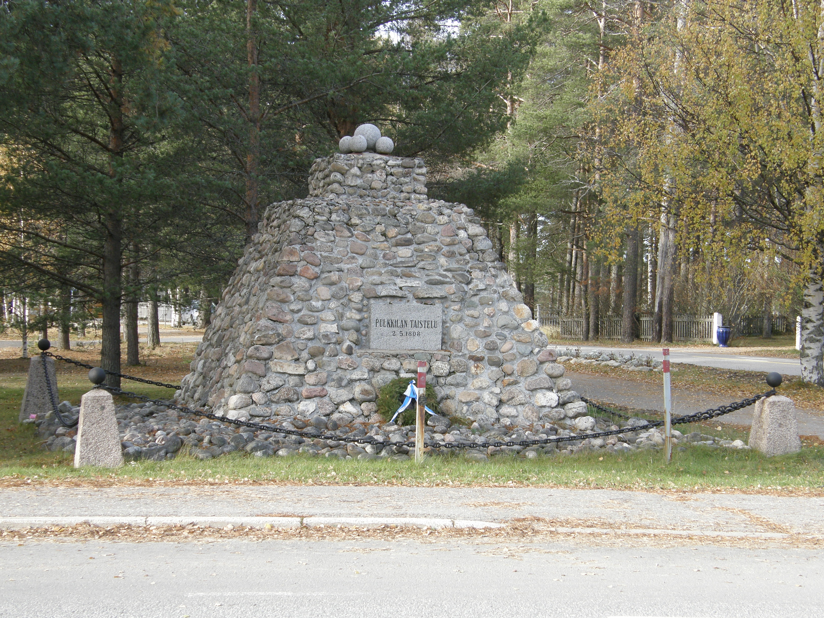 The memorial of the Battle of Pulkkila of 2 May 1808, in Pulkkila, Siikalatva, Finland The text in infirmation table: 1808–1809 The War of Finland The Battle of Pulkkila. On this place the Finnish troops commanded by Sandels defeated it's enemy 2 May 1808. The Battle of Pulkkila was one of the few victories of Sweden–Finland in this war between Sweden–Finland and Russia. The war ended finally to the victory of Russia. By Hamina peace 1809 Sweden lost Finland which was connected to Russia for years 1809–1917.